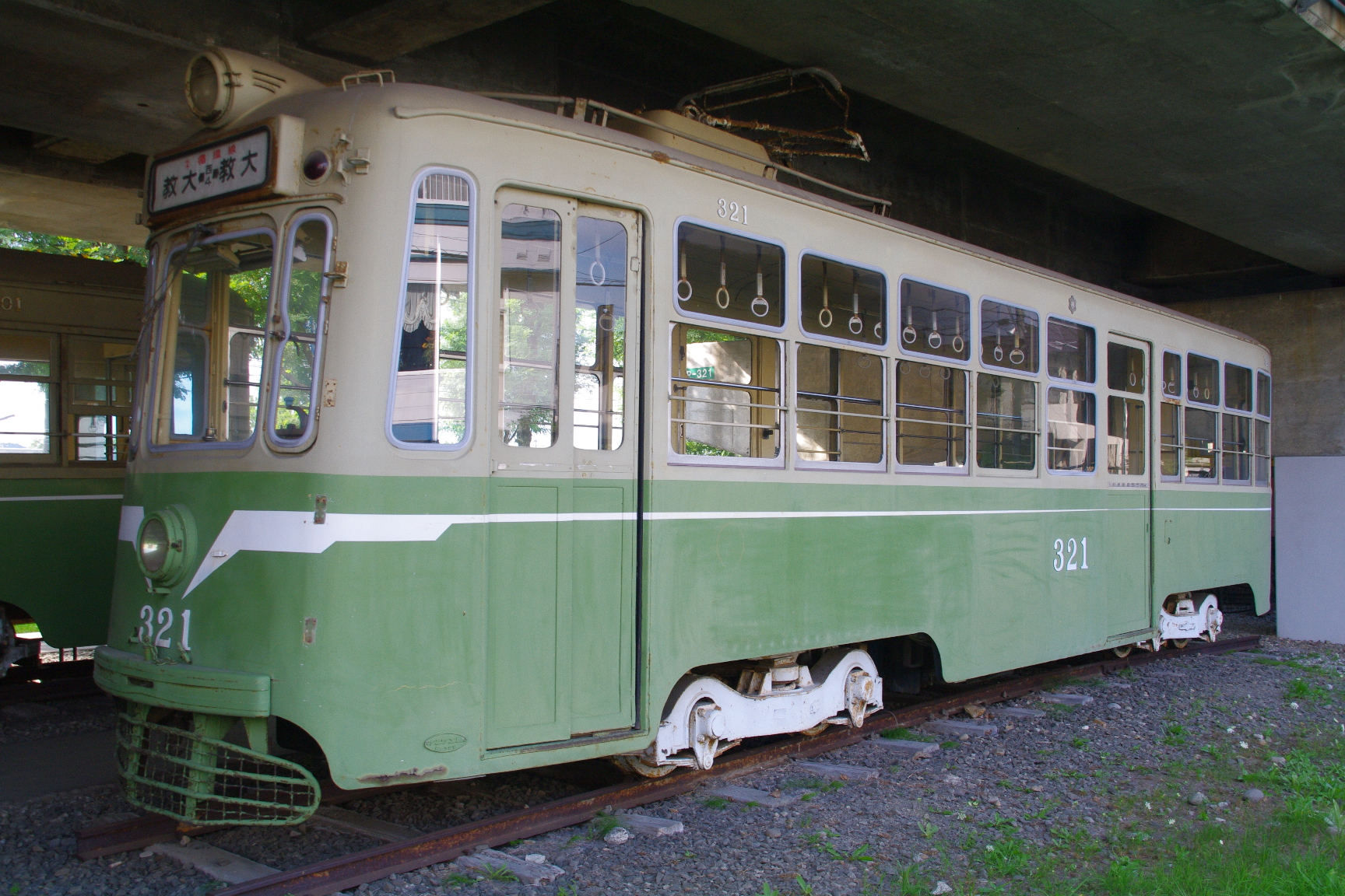 Sapporo streetcar type 321.